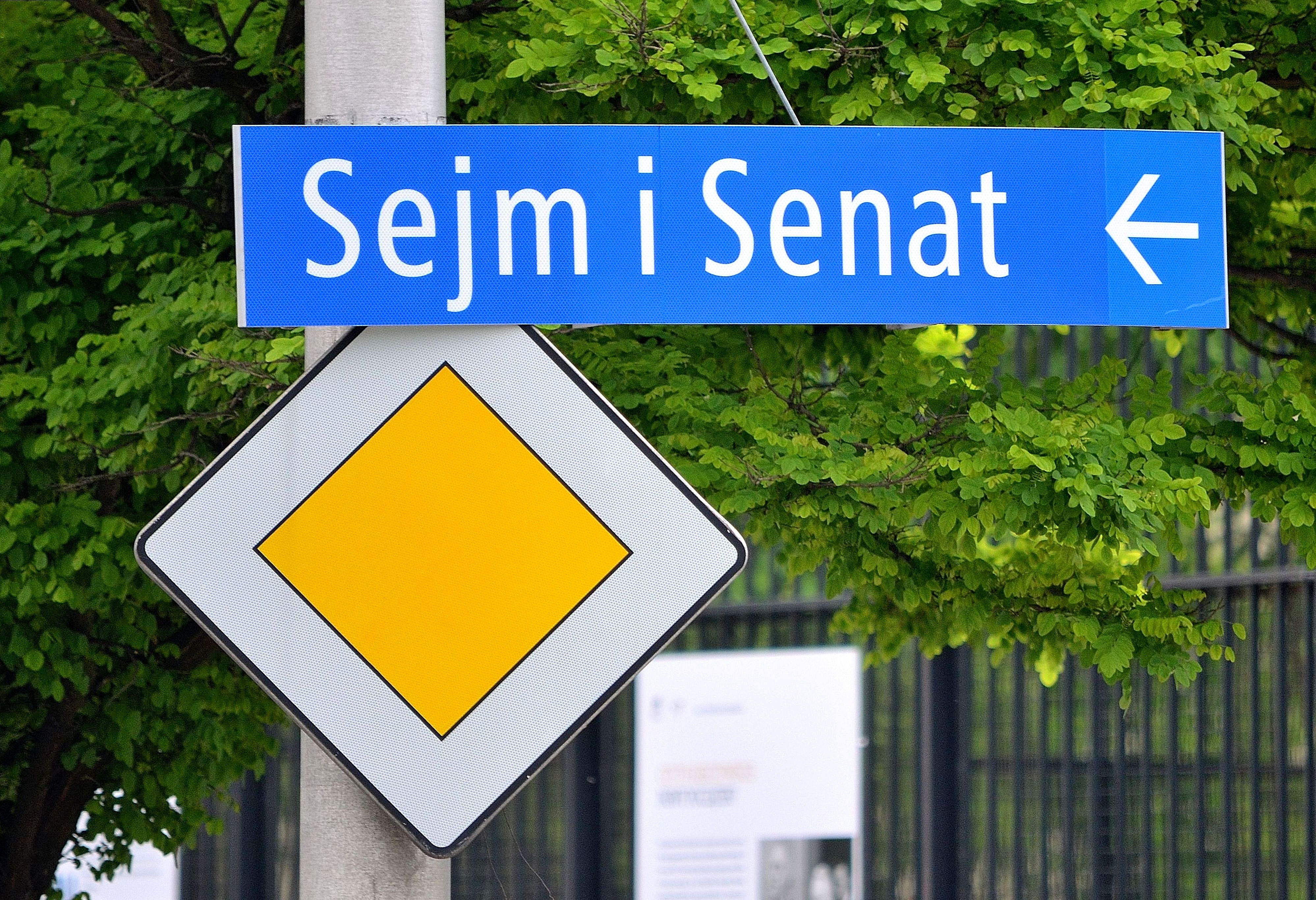 MSI (City Information System) fingerpost on Piękna Street in Warsaw